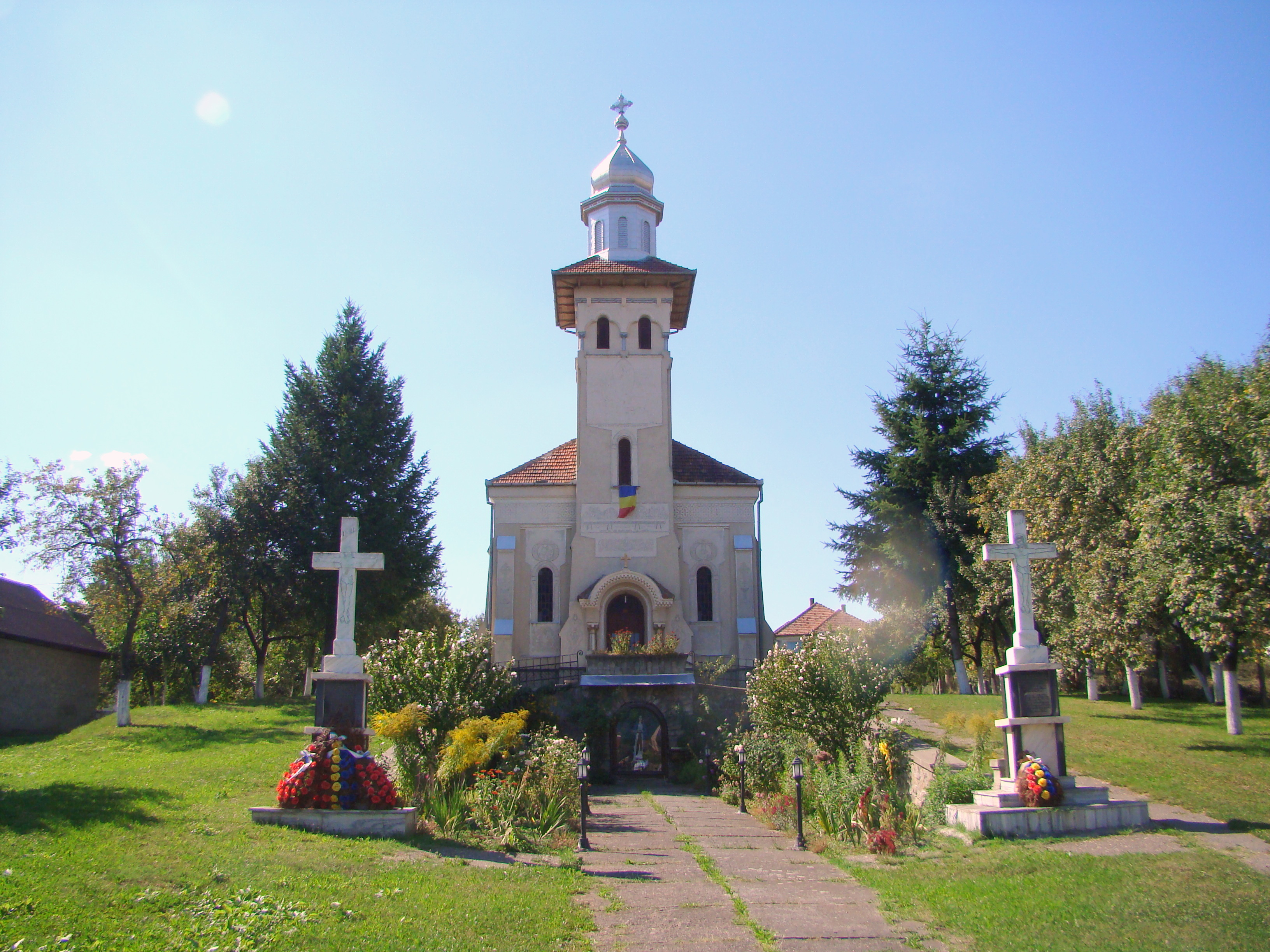 Crasna, Sălaj county, Romania